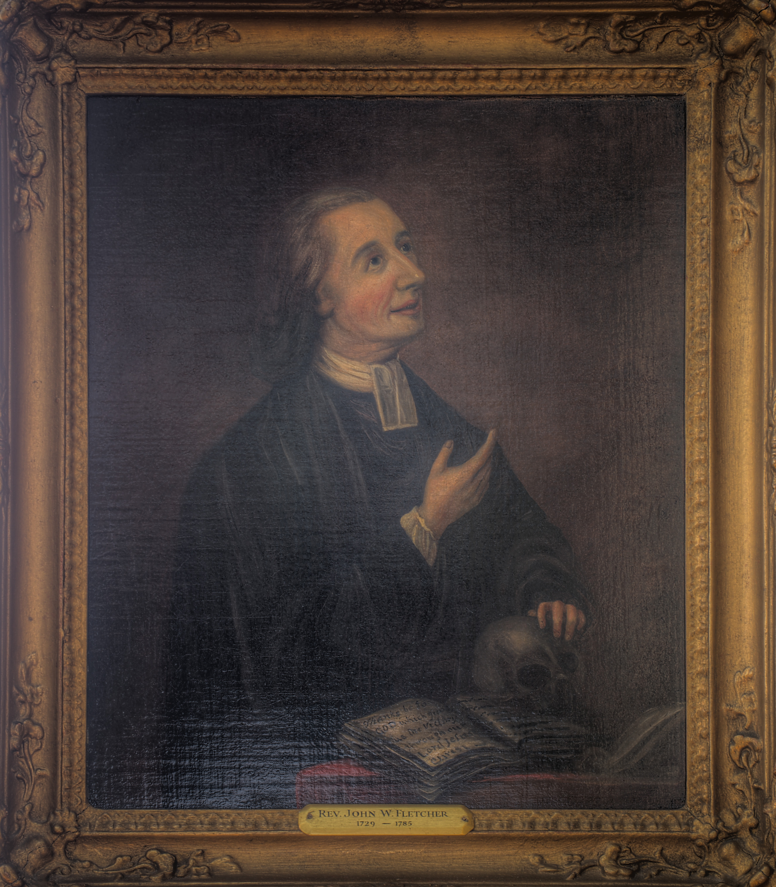 Rev. John William Fletcher (1729 - 1785)